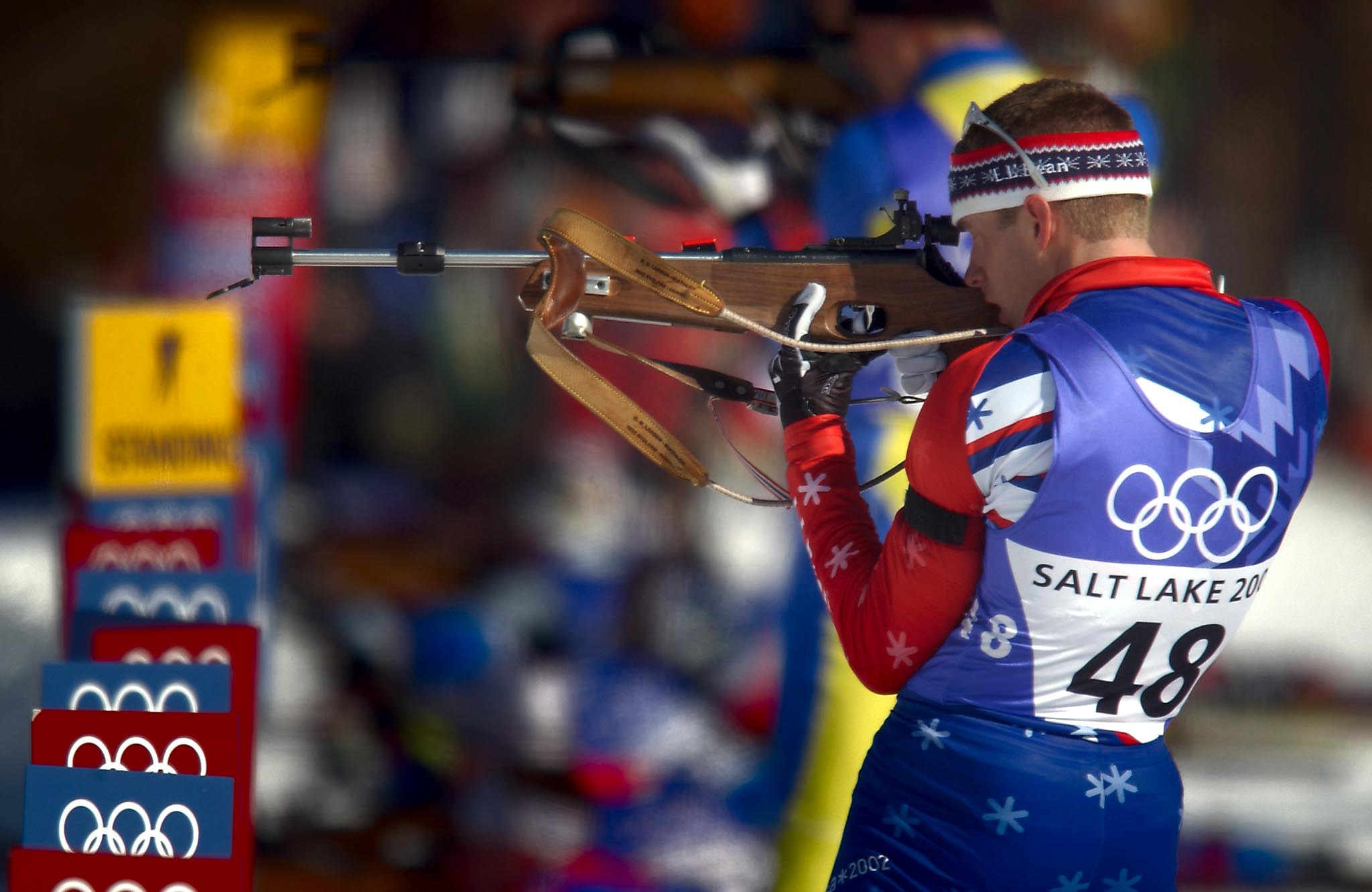 020211-N-3995K-269 Salt Lake City, UT (Feb. 11, 2002) -- U.S. Army Specialist Jeremy Teela takes aim during the men's 20km individual biathlon event at “Soldier Hollow” in Midway, UT, during the 2002 Winter Olympic Games. Teela finished with a personal best of two missed targets, and finish 14th in the competition. U.S. Navy photo by Journalist 1st Class Preston Keres. (RELEASED)